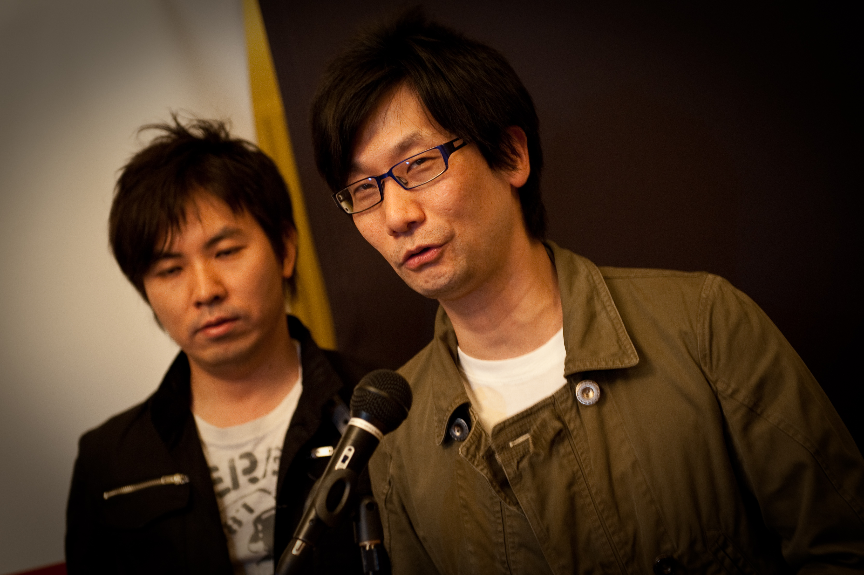 Hideo Kojima - PlayStation.Blog E3 Meetup, Los Angeles, June 2010.